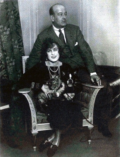 Grand Duke Boris Vladimirovich of Russia and his wife Zinaida Rachevskaya